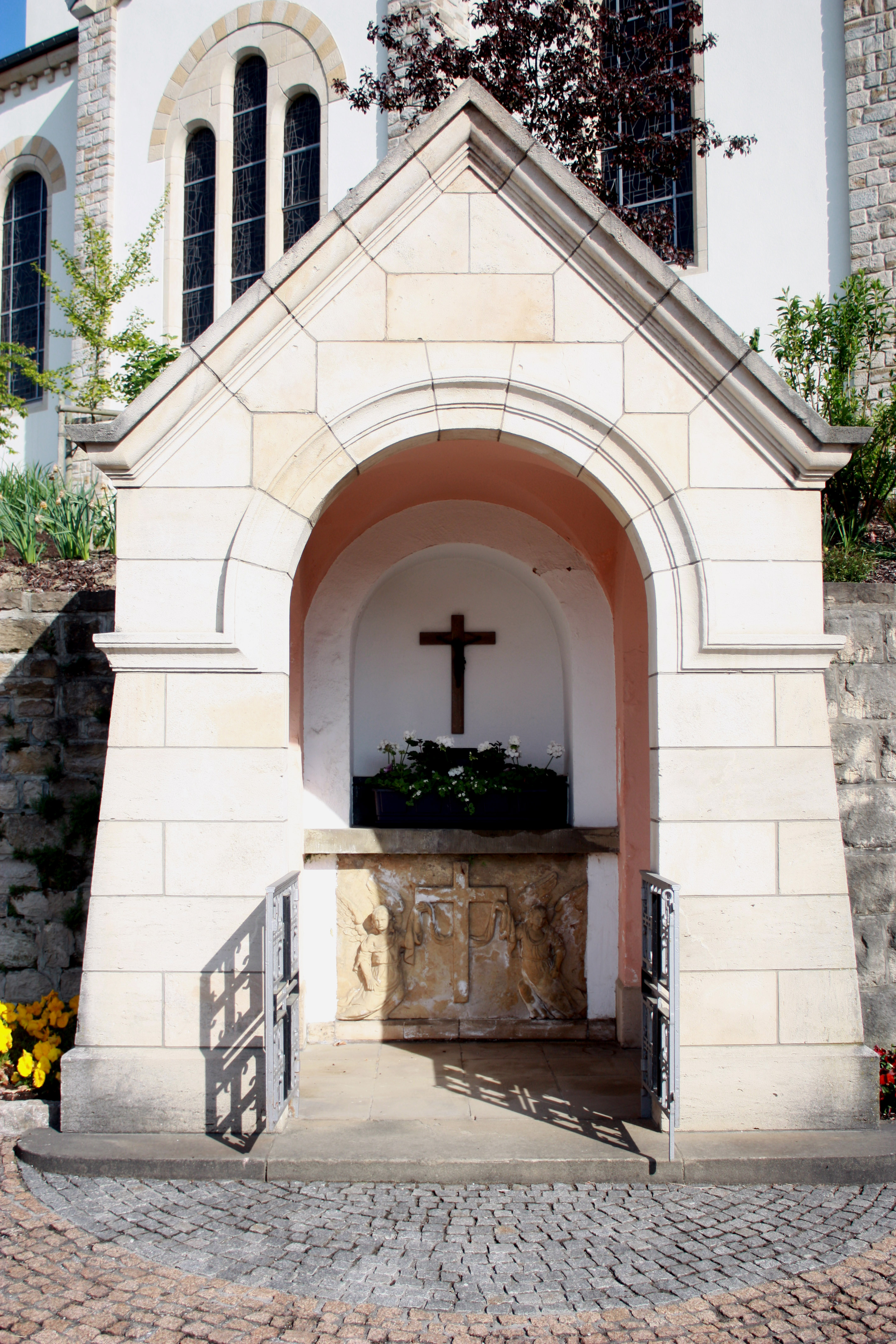 War memorial WWII, Monument aux Morts, Chapel Leudelange in Luxembourg